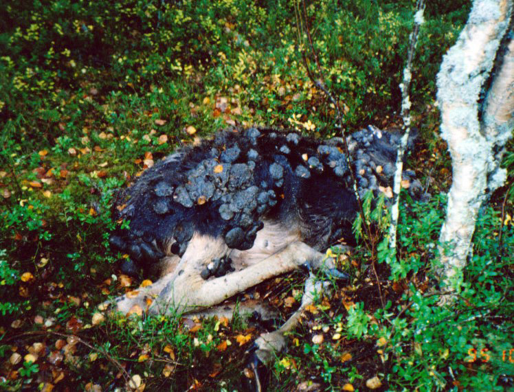 Elk dead from a disease.